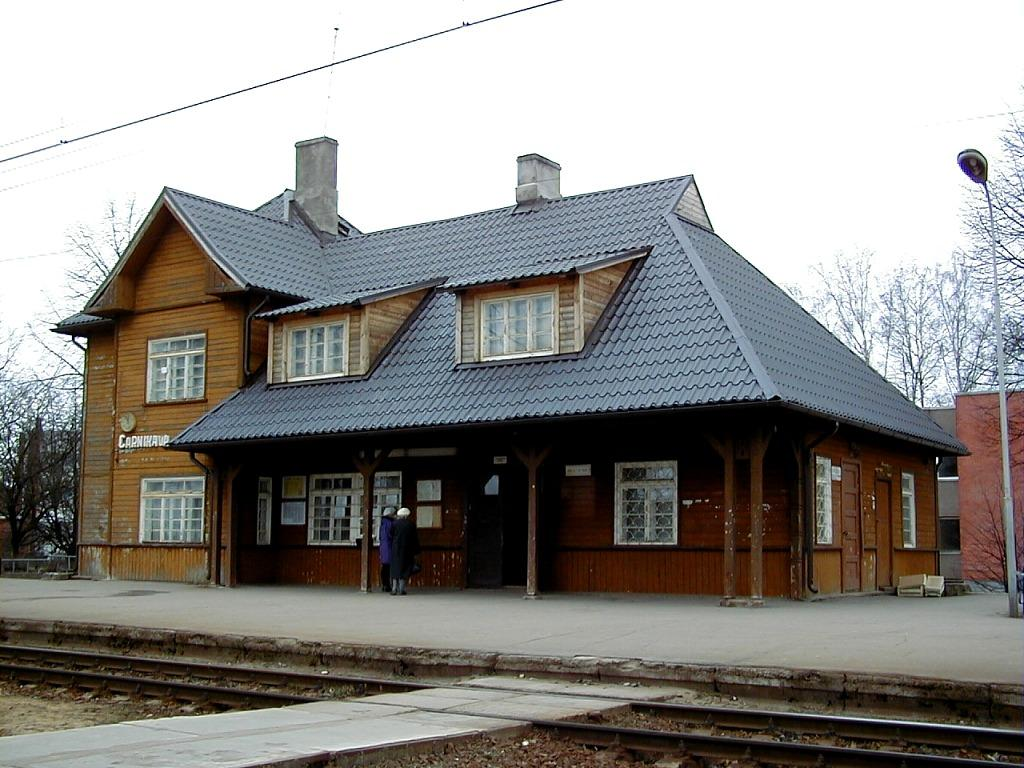 Carnikava Station (Latvia).